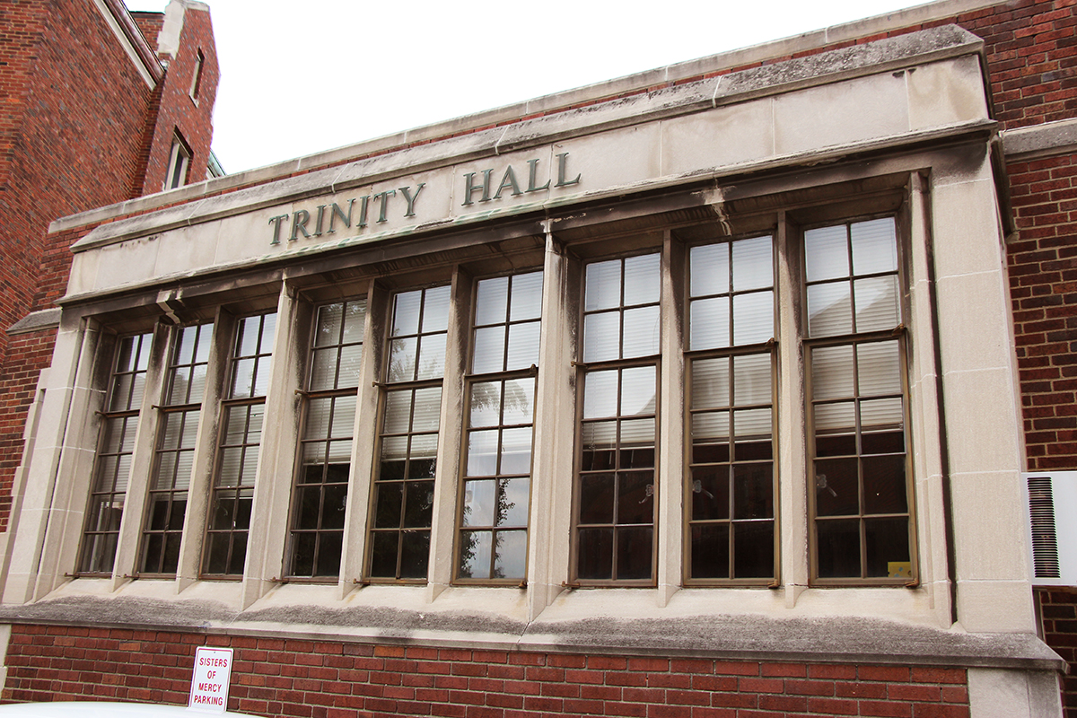 Carlow University Trinity Hall facade